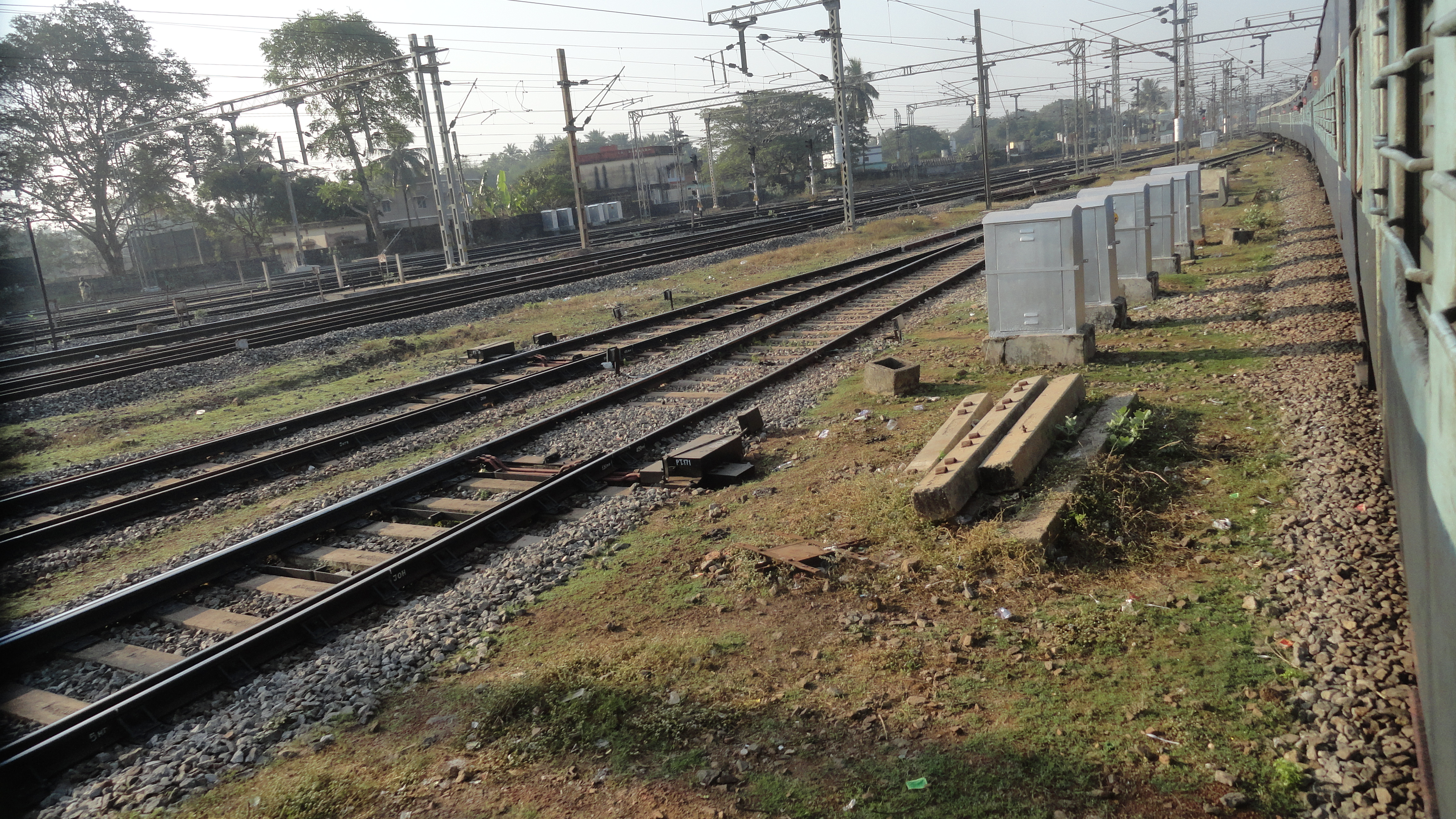 Bhubaneswar Rly